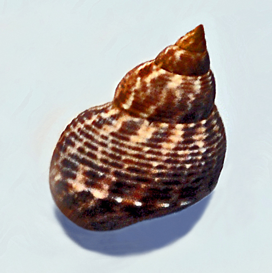 A shell of Littoraria scabra, on display at the Museo Civico di Storia Naturale di Milano